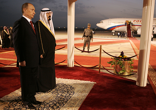 King Khalid Iinternational Airport, Riyadh. At an official welcome ceremony with King Abdullah bin Abdul Aziz Al Saud.